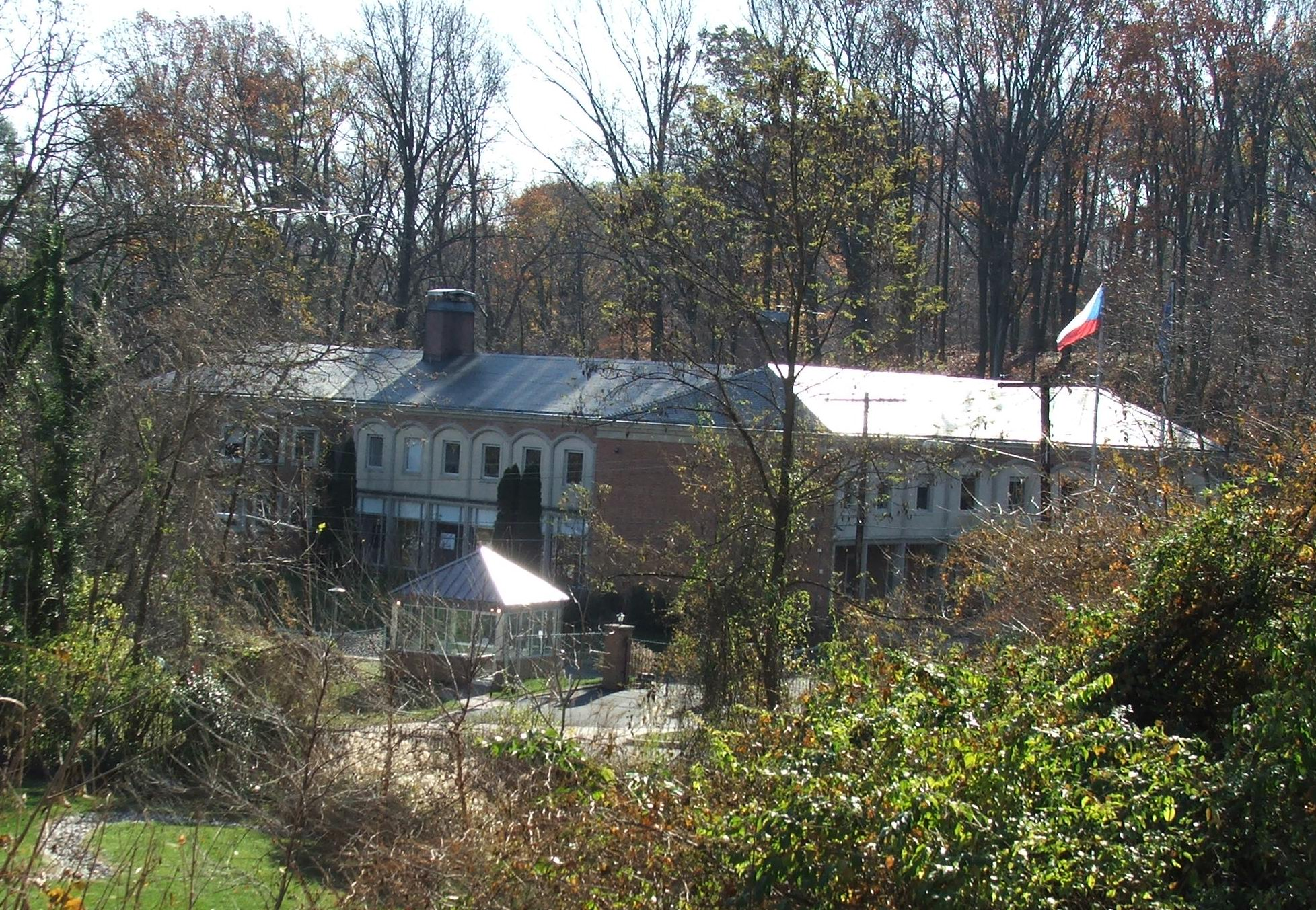 Embassy of Czechia in Washington, D.C. - United States.